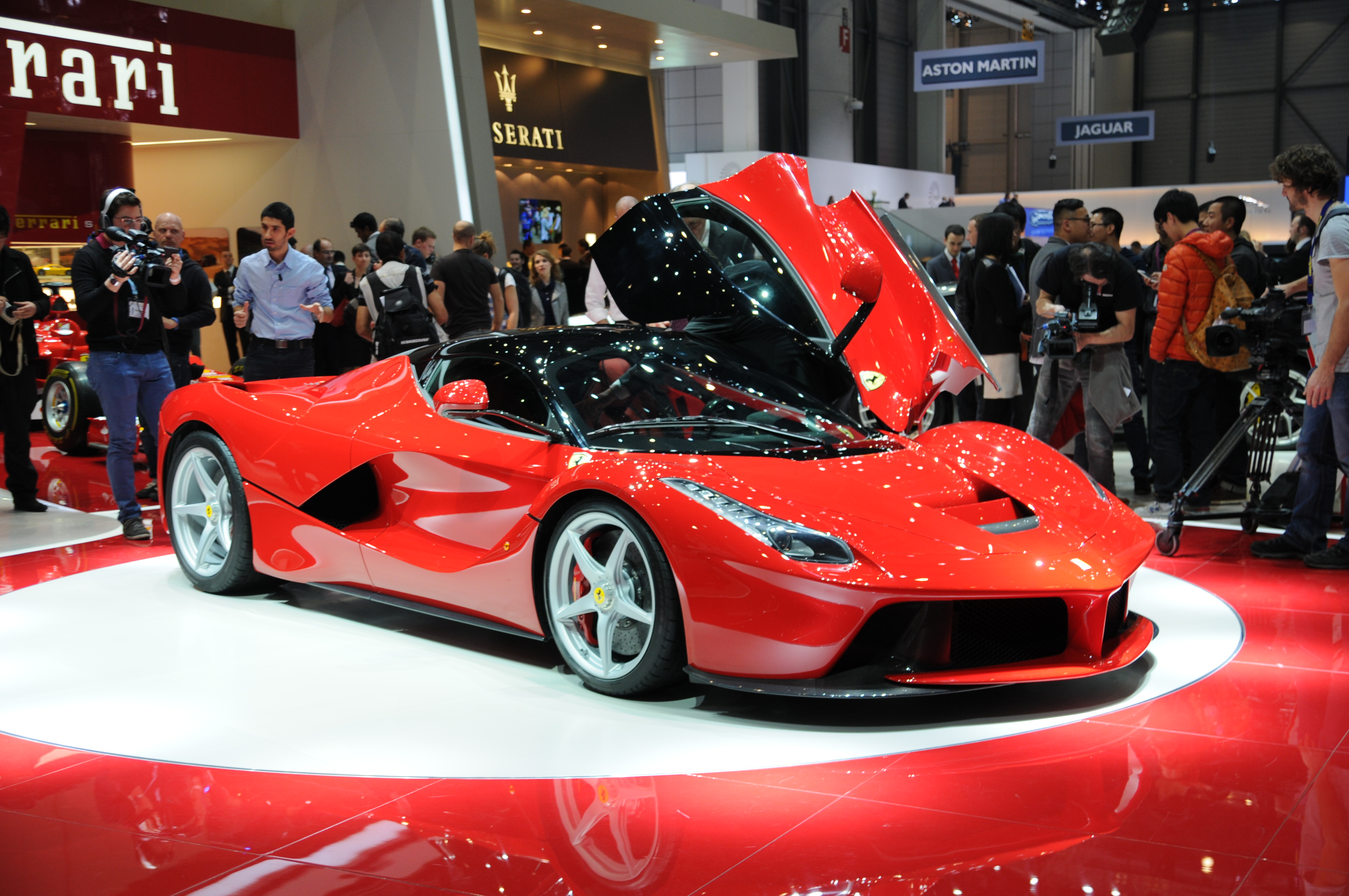 LaFerrariGeneva Motor Show 2013 (photos taken on the first press day)